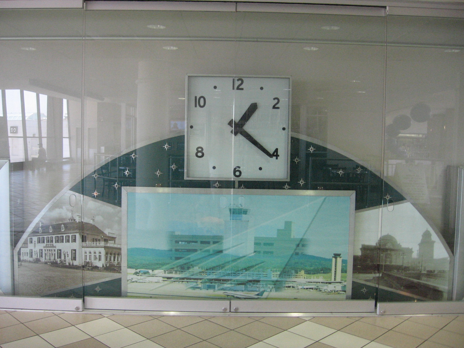 Display in the Birmingham International Airport terminal of the analogue clock with blinking stars which once hung above the main entrance doorway of the 1962 terminal and, with an adjacent sign, welcomed arriving passengers to Birmingham as they exited the terminal. Modified from its original appearance, the clock now includes photos of the current terminal, the 1931 terminal, and Birmingham’s Byzantine style Terminal Station which served the railroads of Birmingham until being demolished in 1969.[11]